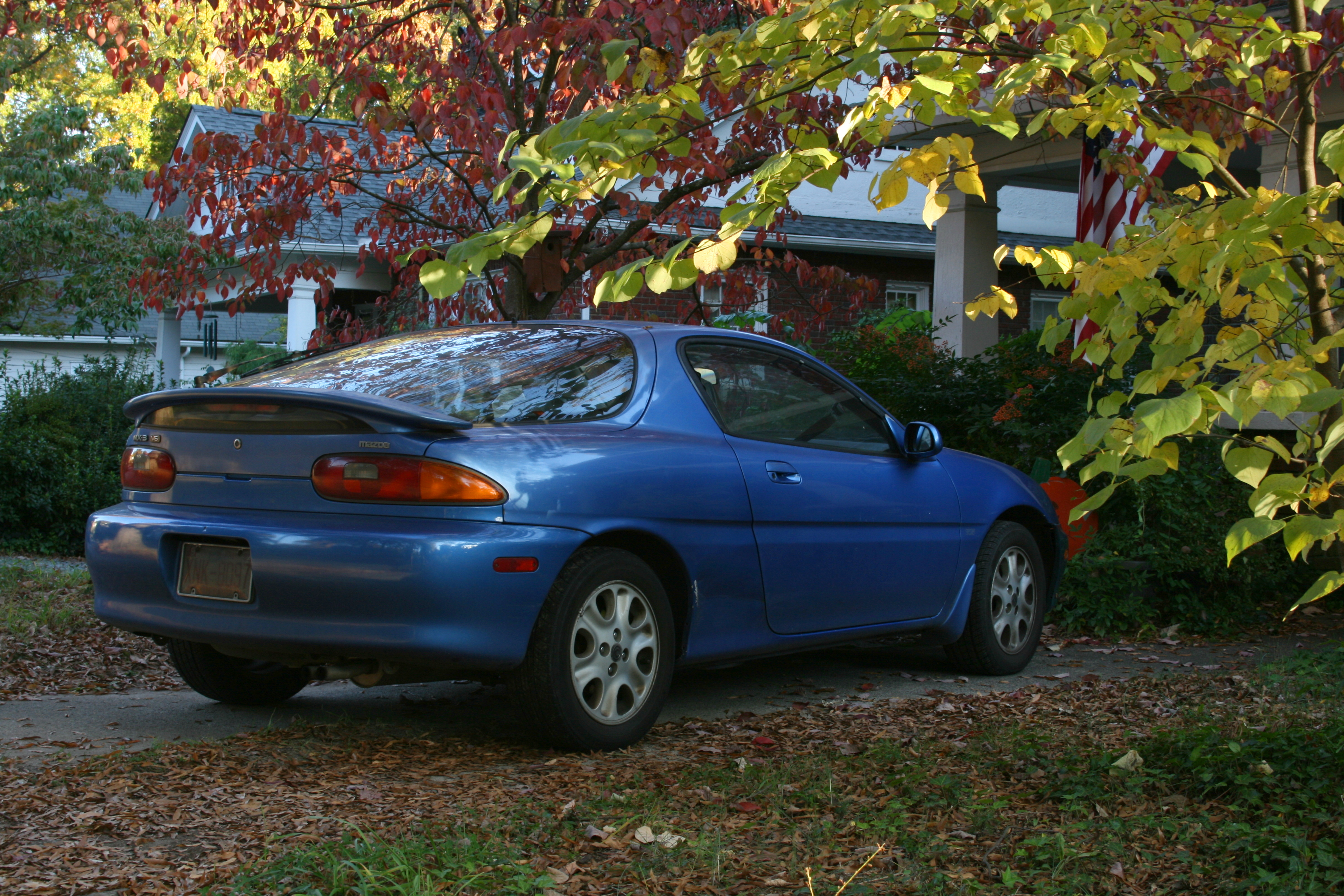 A Mazda MX-3 GS (with a V6 engine) parked at a residence on Markham Avenue in Durham, North Carolina in the autumn.